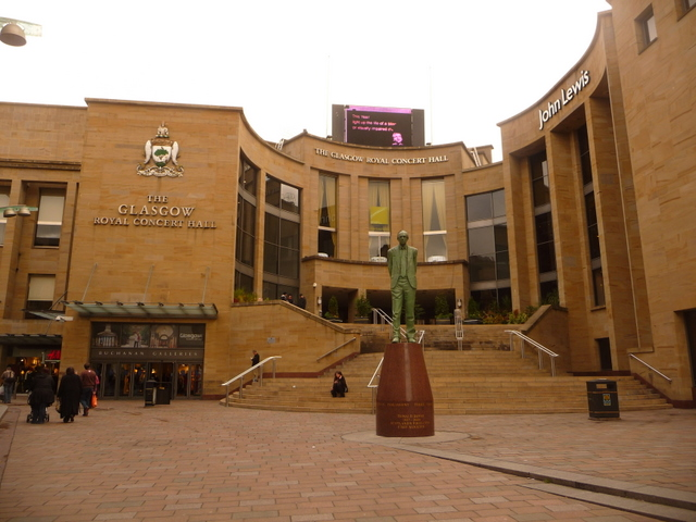 Glasgow: Royal Concert Hall Situated at the far eastern end of Sauchiehall Street.